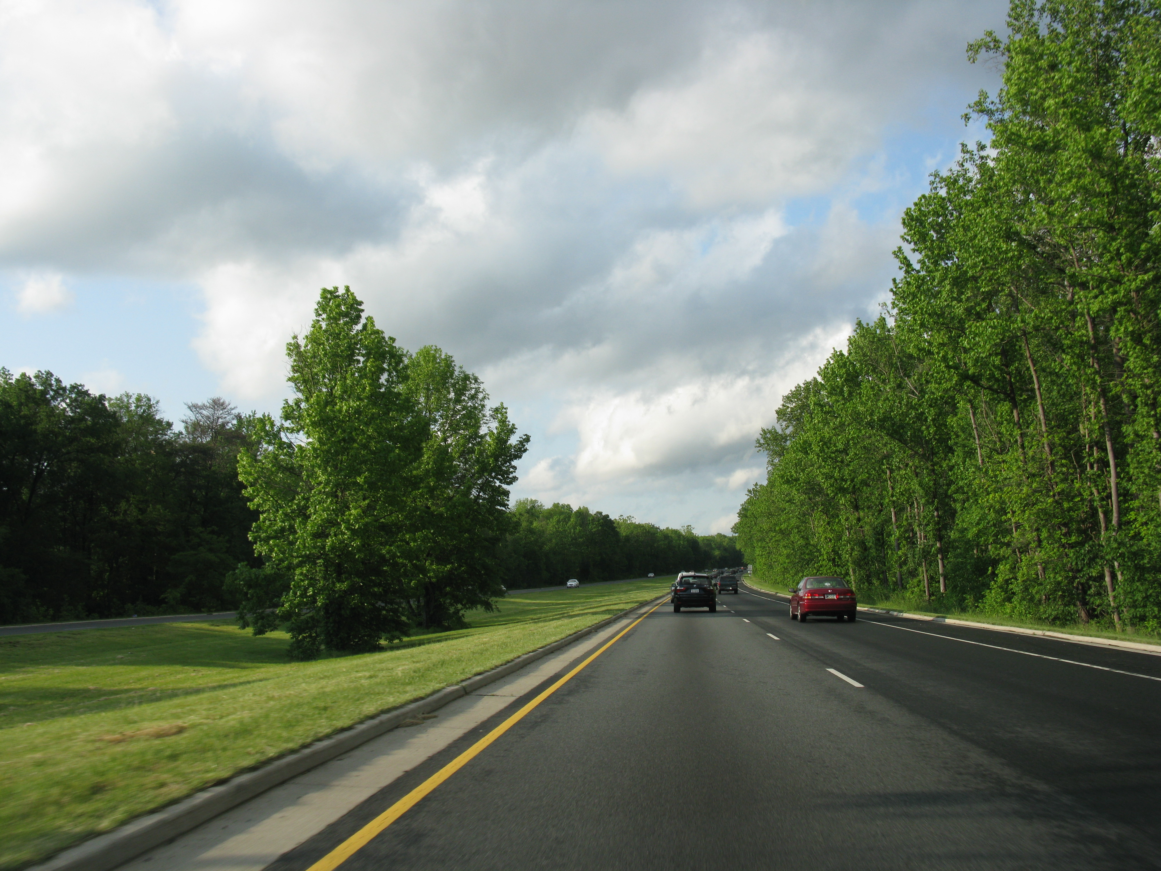 Traveling northbound on the Baltimore-Washington Parkway between the interchanges with Powder Mill Road and MD 197, Laurel, Maryland.